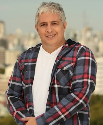 Mariano en el año 2013